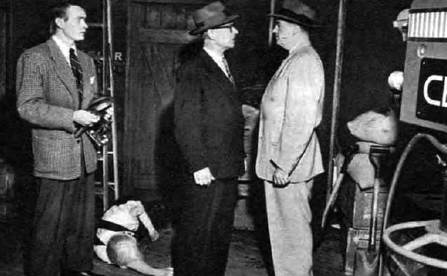 Photo from the television program Casey, Crime Photographer. Darren McGavin played Casey.